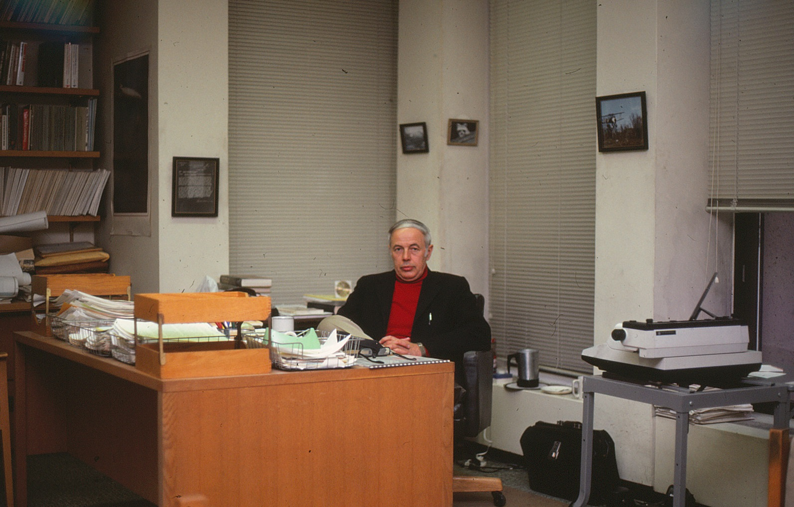 Warner R. Schilling, James T. Shotwell Professor of International Relations at Columbia University and Director of the Institute of War and Peace Studies 1976-86, in his office (the Director's Office) on the 13th floor of the International Affairs Building. Scan of a Kodachrome slide stamped June 1985 and taken by Warner R. Schilling via self-timer. Image subsequently inherited by the uploader.